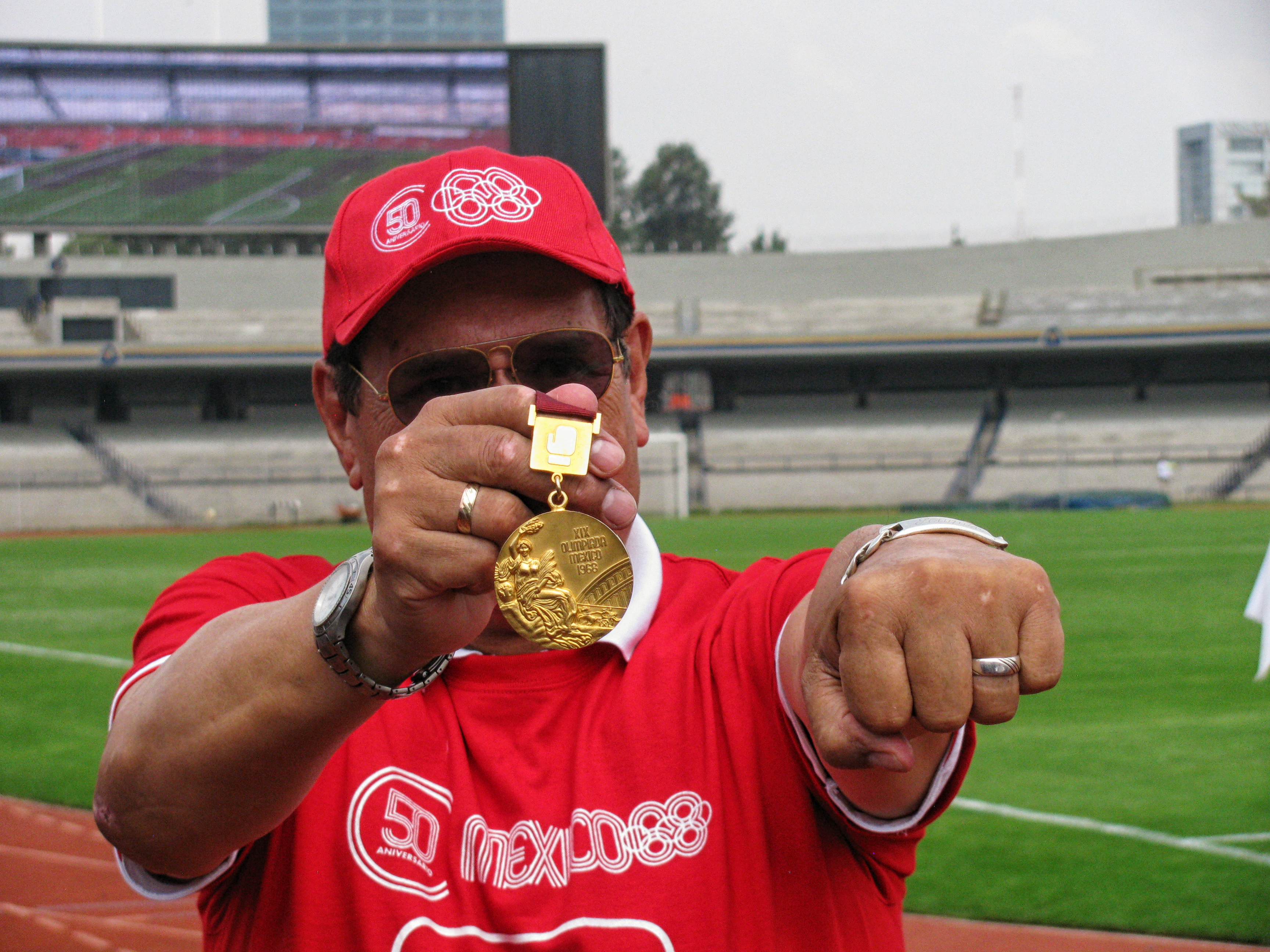 Joaquín Rocha with the bronze medal he won at the 1968 Olympic Games. Event to commemorate the 50th anniversary of the 1968 Olympic Games in Mexico. University Olympic Stadium, Mexico City, Mexico.